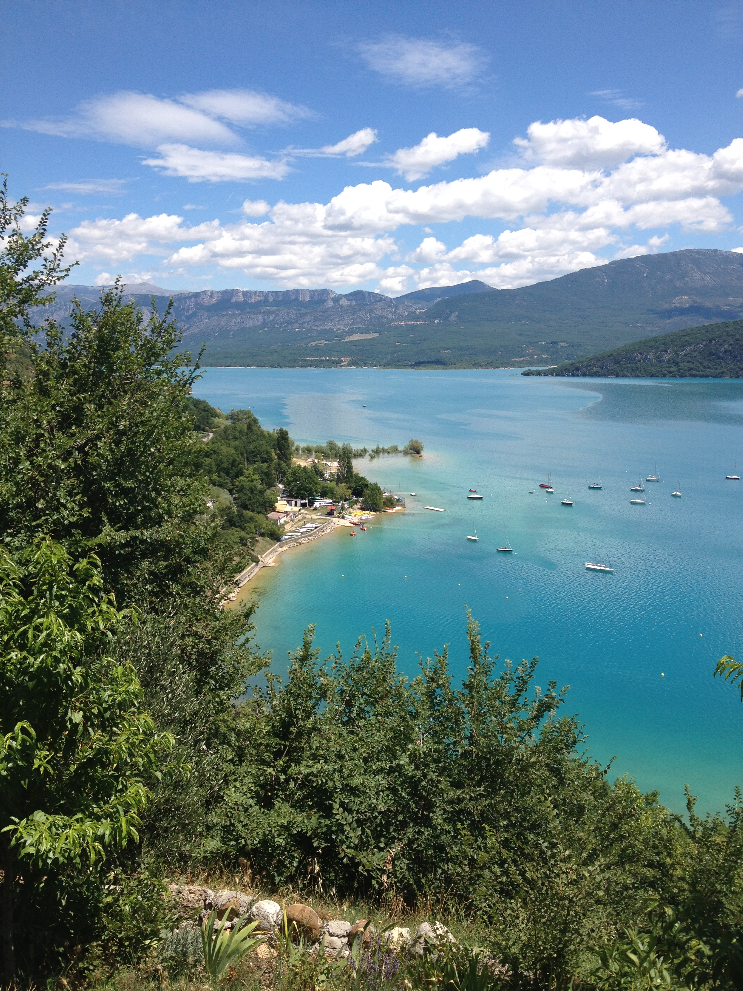 In the Verdon Natural Regional Park, the turquoise Sainte Croix Lake.